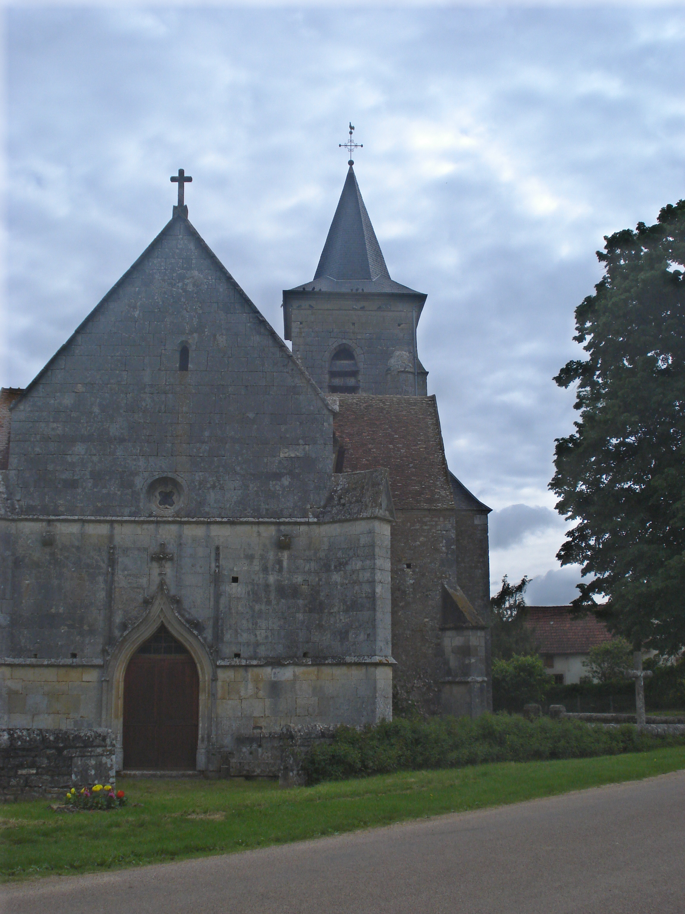 Cuncy-lès-Varzy (Niève, Fr) gothic church St.Martin